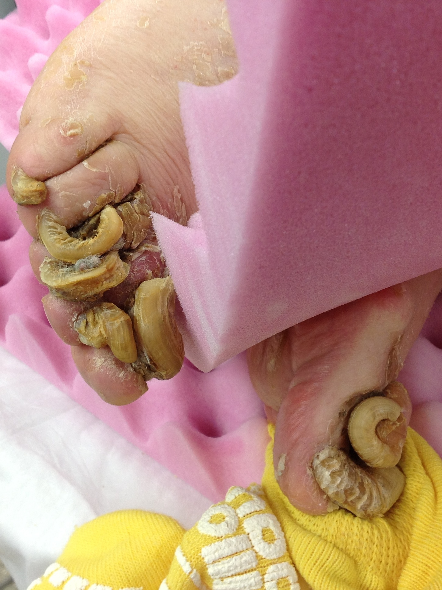 onychogryphosis of the right foot in an elderly man